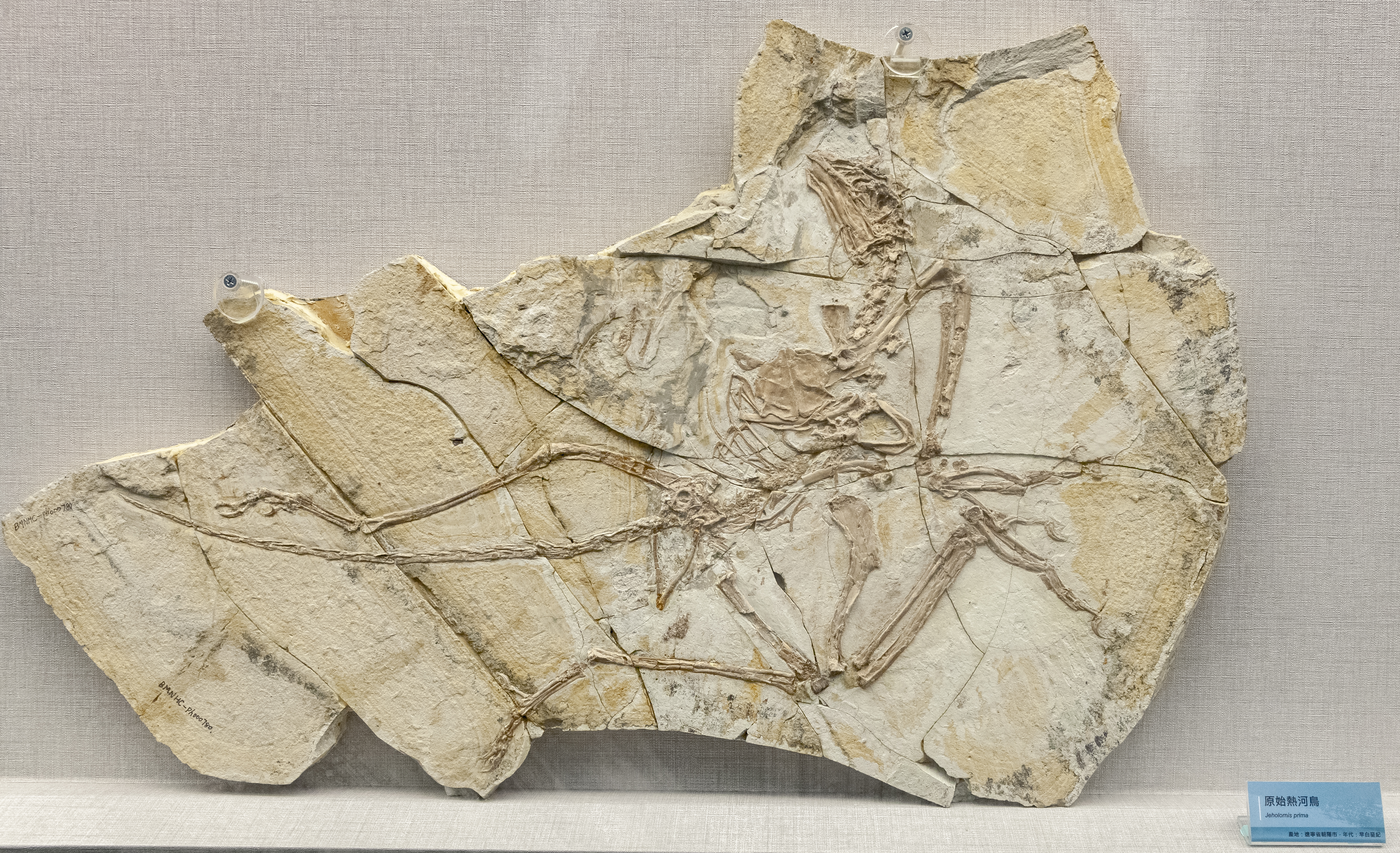 Fossil specimen of Jeholornis prima, collected from Chaoyang, Liaoning, China. The specimen (BMNHC Ph780) is a collection of Beijing Museum of Natural History and was on display in National Museum of Natural Science (Taichung, Taiwan) during a special exhibition. 中文（台灣）: 原始熱河鳥（Jeholornis prima）的化石標本，發現於遼寧省朝陽市早白堊紀地層，北京自然博物館館藏編號BMNHC Ph780，於臺灣國立自然科學博物館《窺探世界級的古生物化石寶庫——熱河生物群》特展展出。